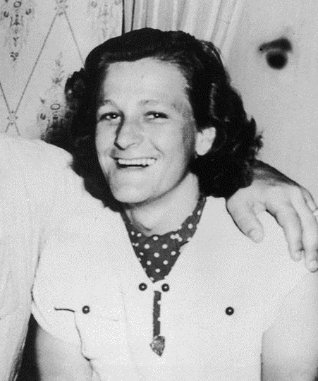 1938 Press Photo George Zaharias,Wrestler of Colo. and bride Mildren Didrikson